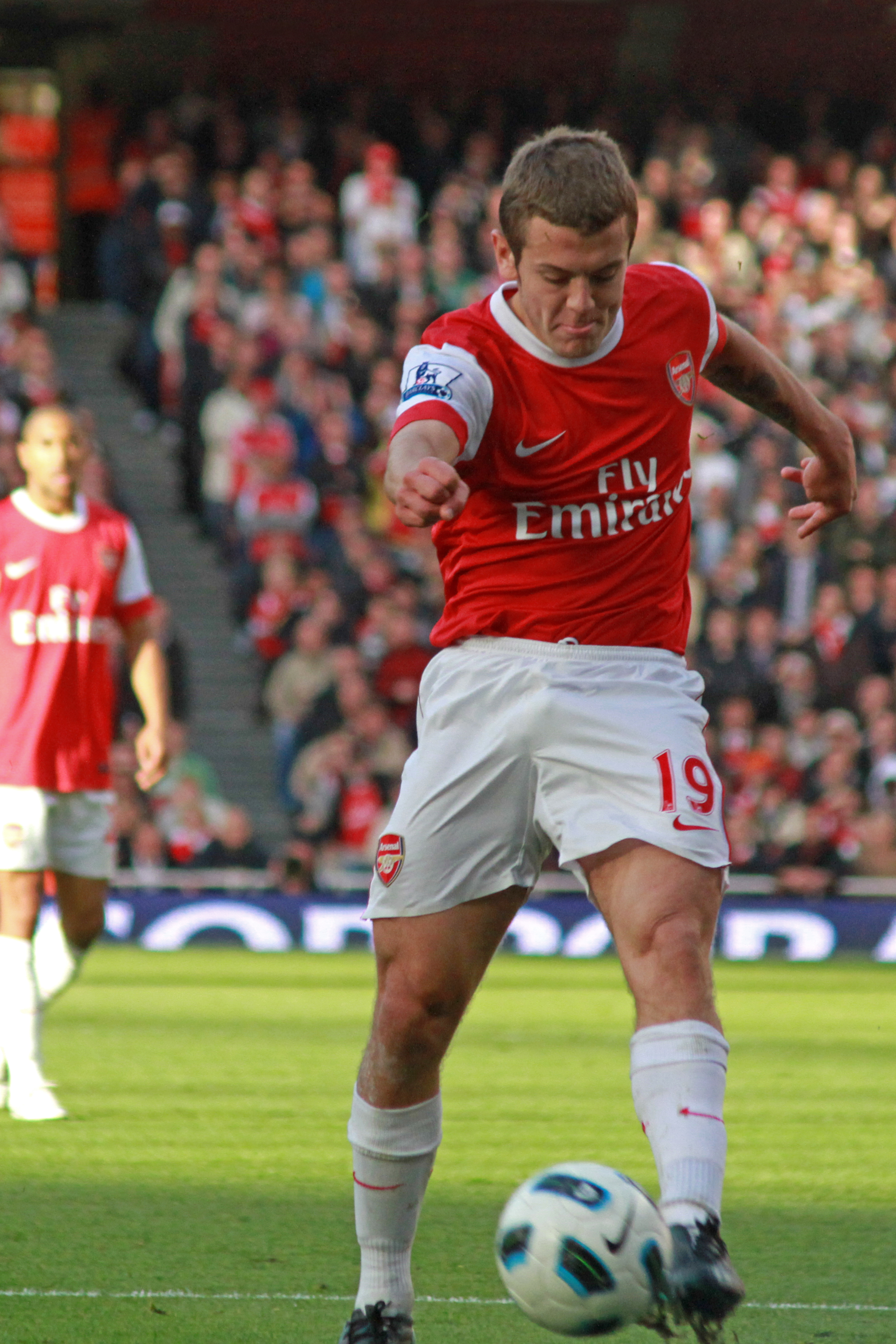 Arsenal v Birmingham City The Emirates 16 October 2010 (2-1)